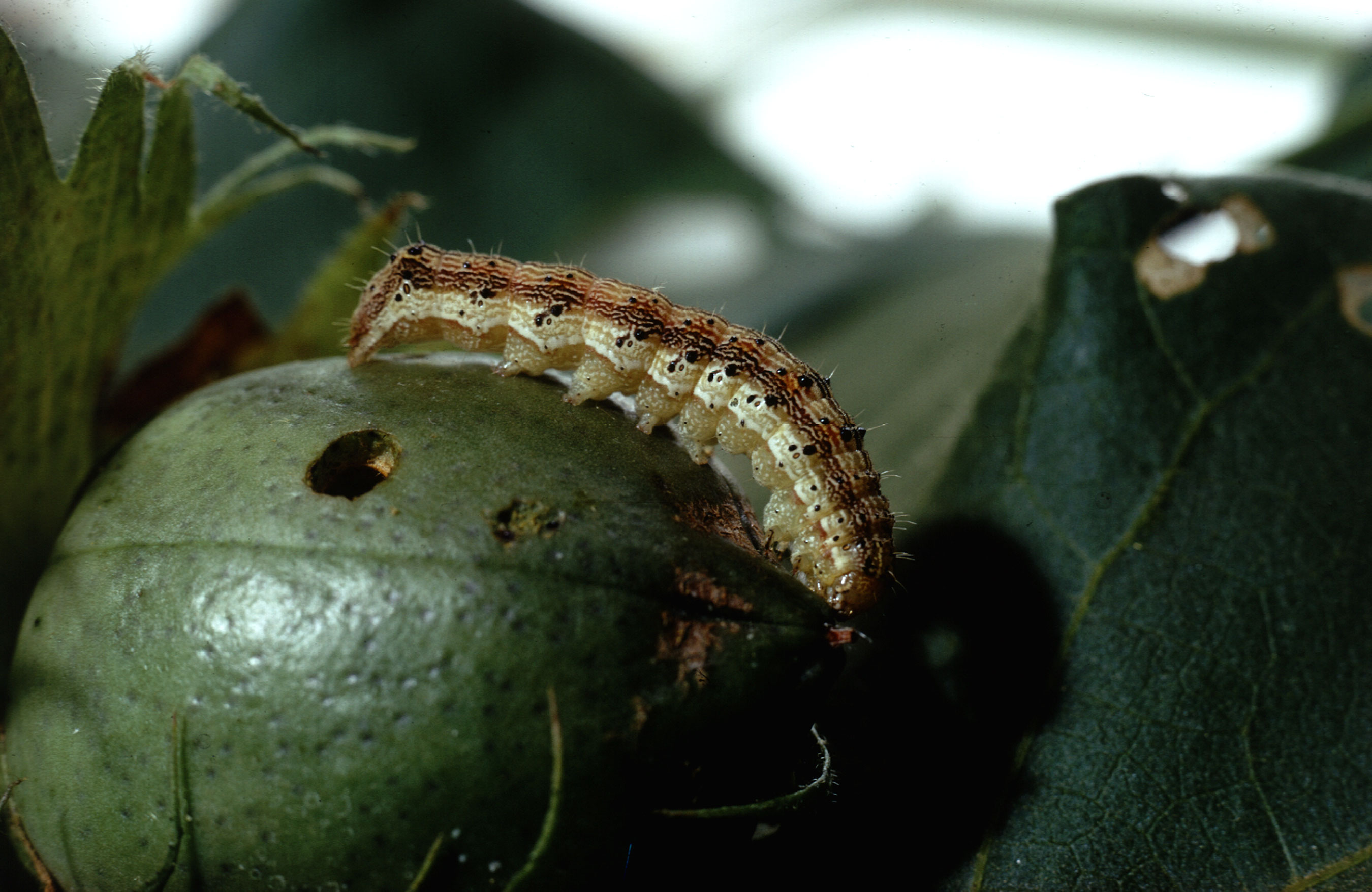 Corn earworm on unripe cottonboll from Image Number K0548-14 Corn earworm on an immature cotton boll. ARS PHOTO